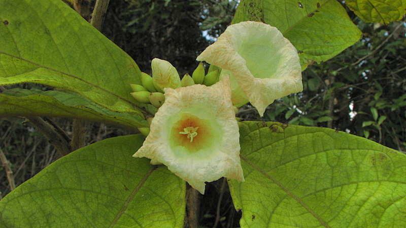 Cordia pilosa M. Stapf & Taroda, Cordiaceae, Atlantic forest, northeastern Bahia, Brazil Tree to 5 m. Popovkin 29 (HUEFS). Local name: mama de porca.